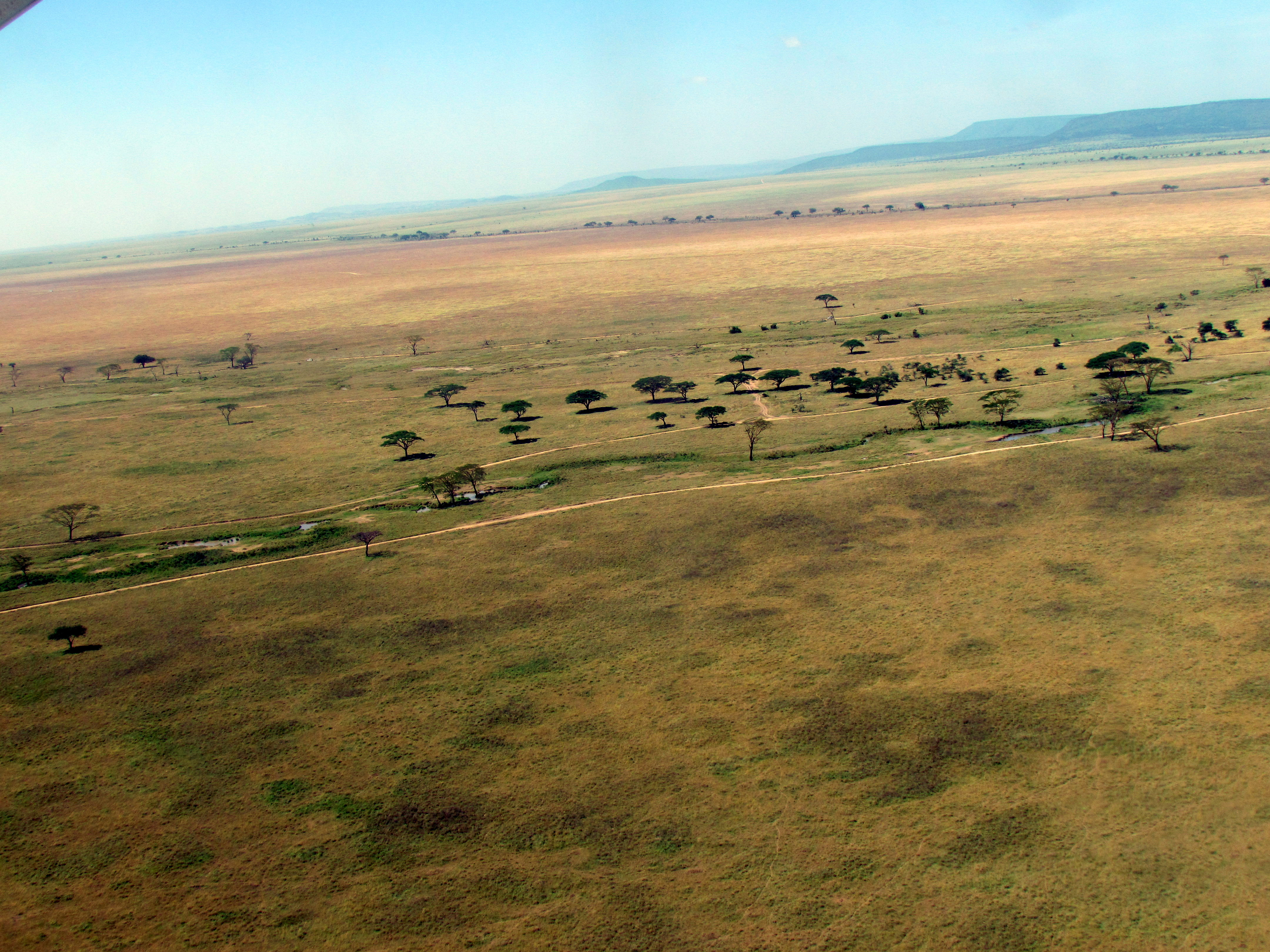 Arusha Region - View from flight to Arusha from Serengeti National Park - Tanzania, Africa